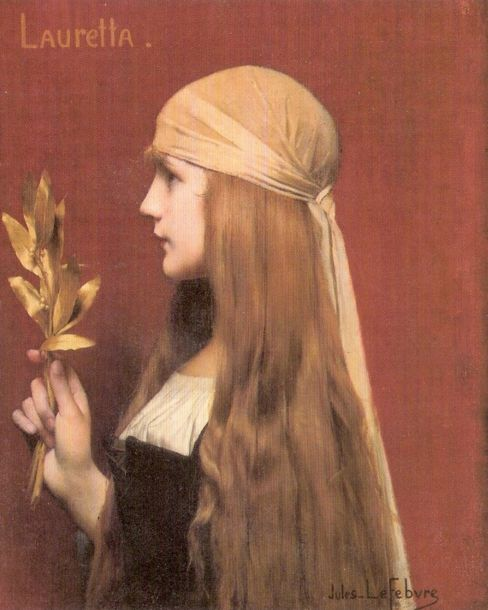 Lauretta (character from the Decamerion)